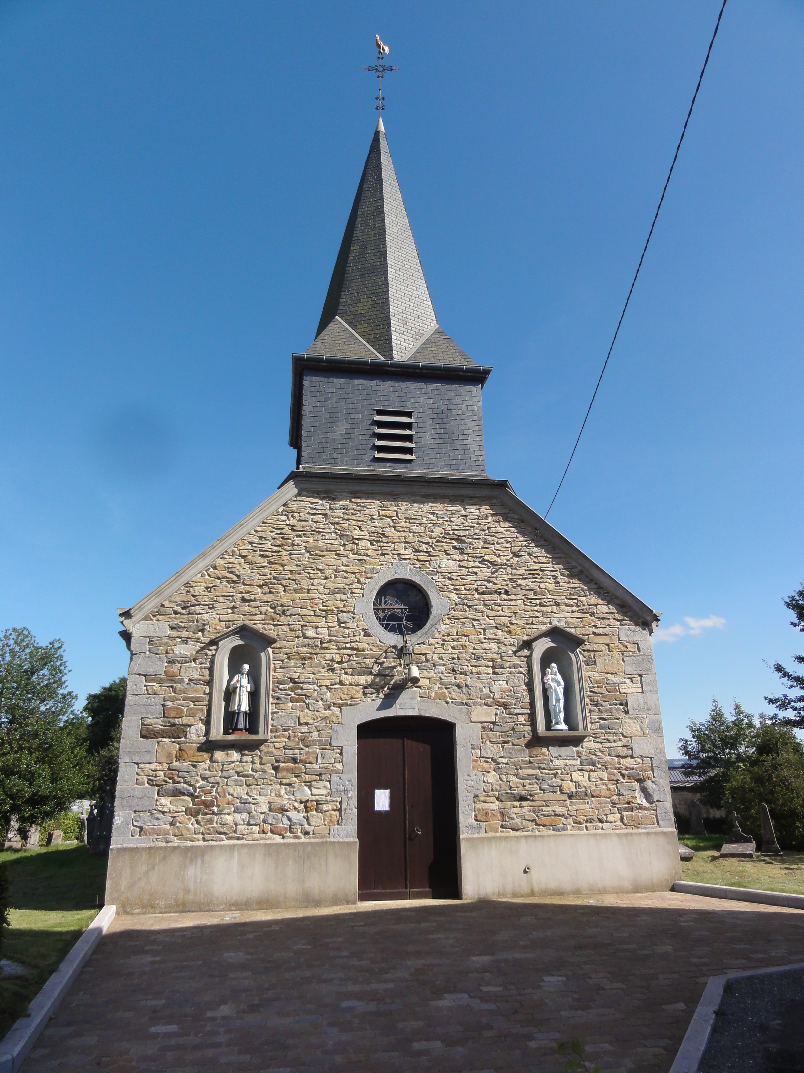 Sévigny-la-Forêt (Ardennes) église façade